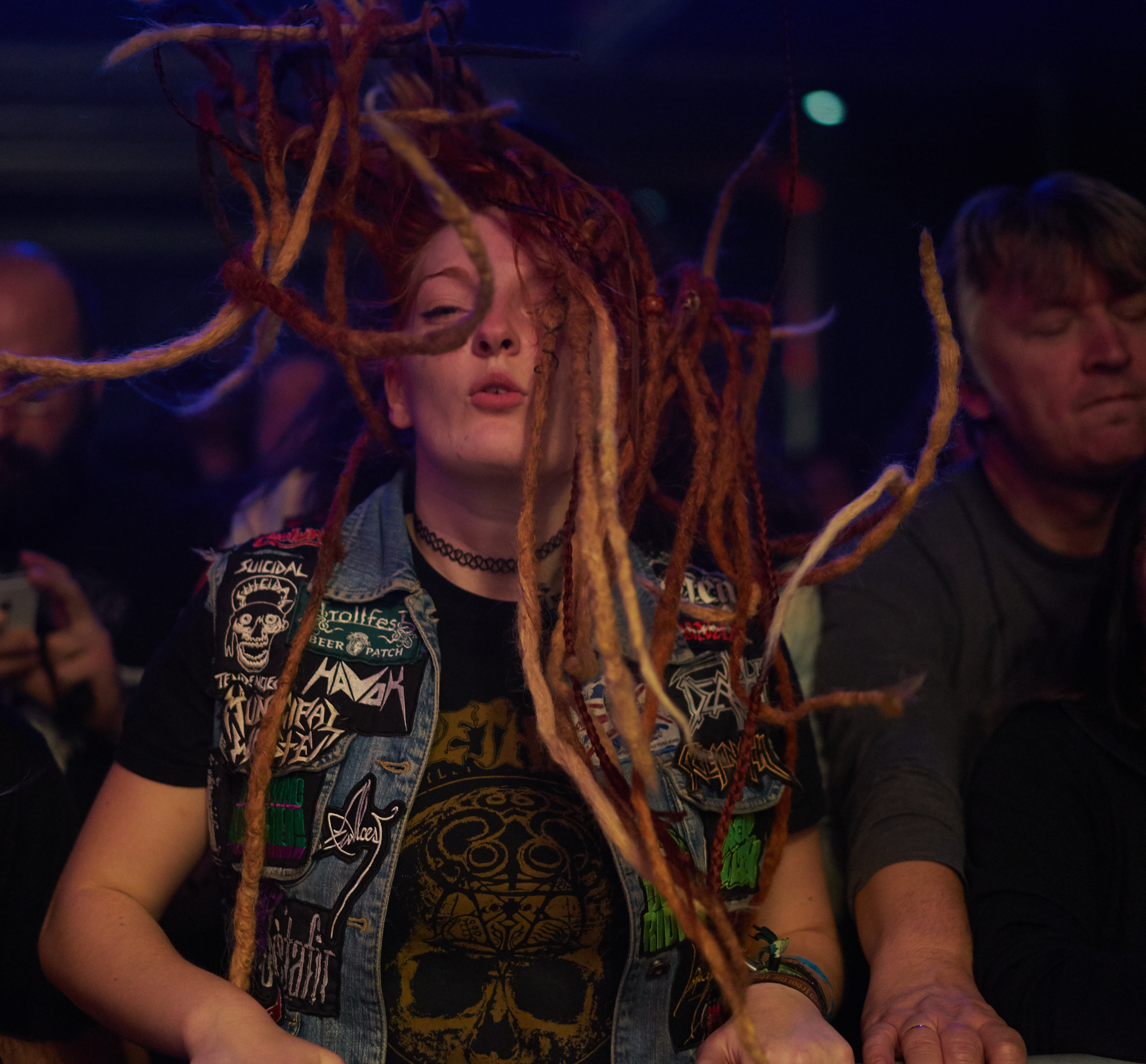 Visitors of the tenth "Hammer of Doom"-Festival in Würzburg, Germany, 2015